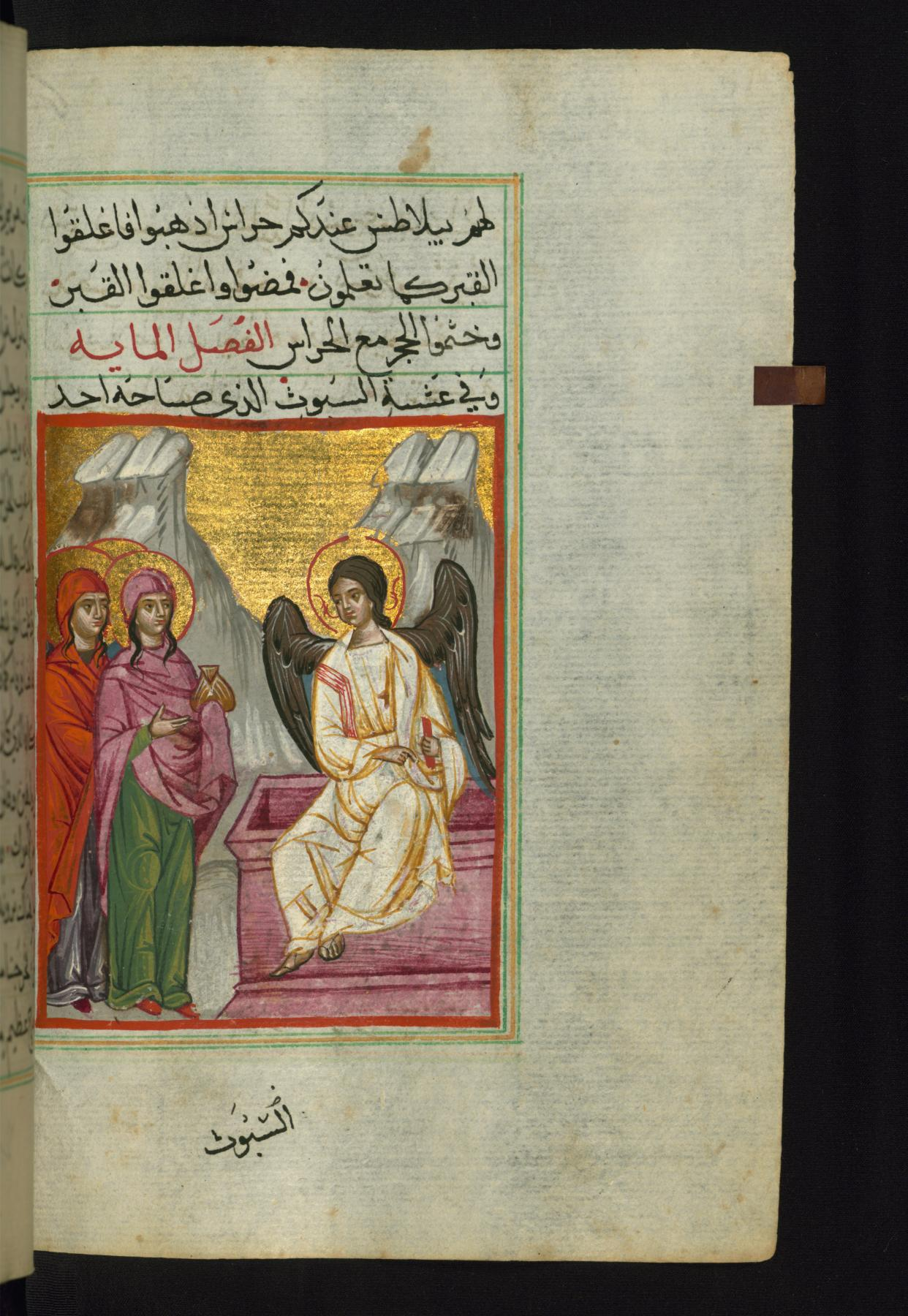 This folio from Walters manuscript W.592 contains an illustration depicting the holy women at the tomb.